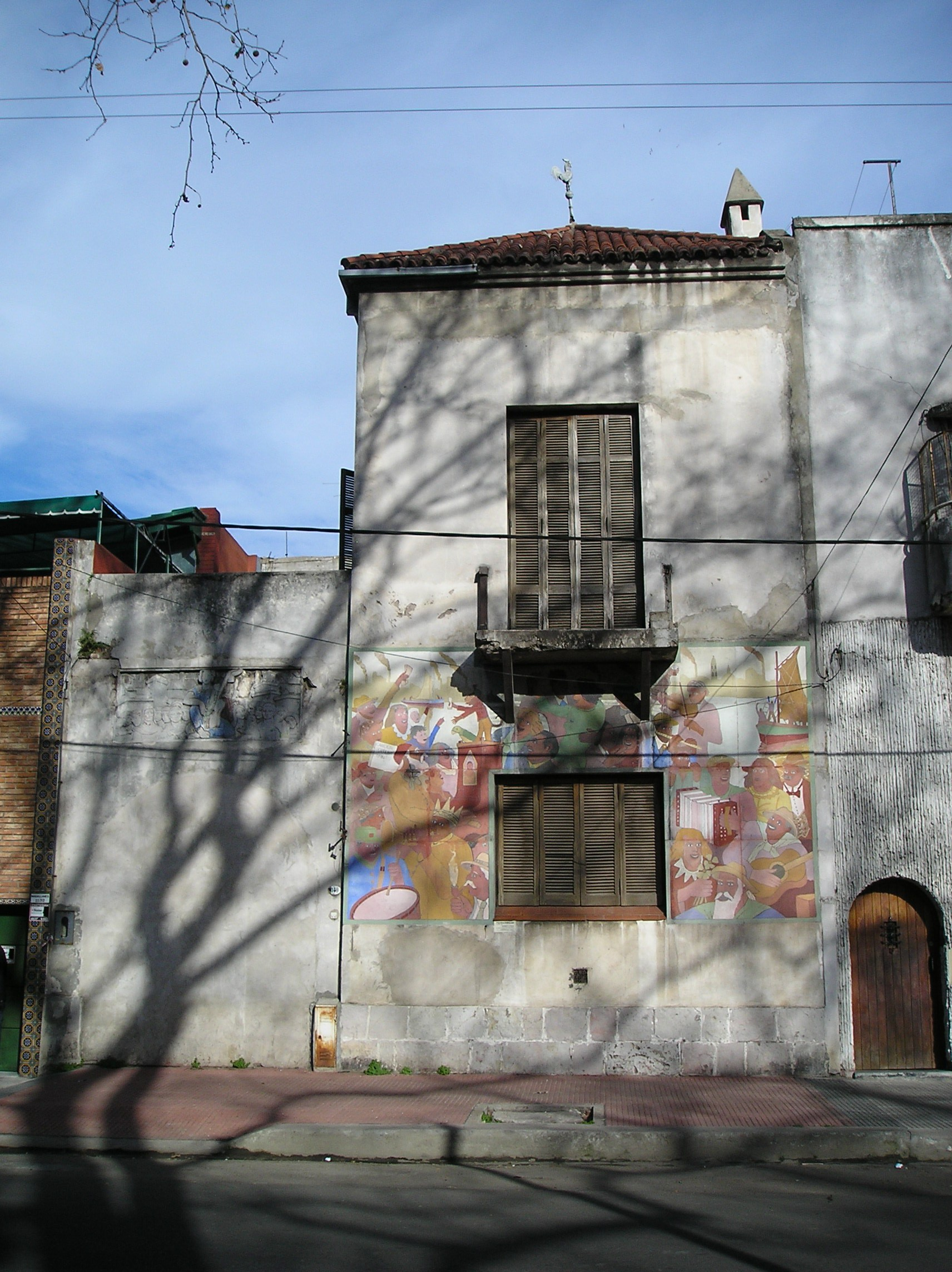 Home of Juan de Dios Filiberto, 1140 Magallanes St. La Boca, Buenos Aires, Argentina. The painting is painted by Benito Quinquela Martin, entitled "Música popular" (Popular music) Casa de Juan de Dios Filiberto, Magallanes 1140, La Boca, Buenos Aires, Argentina. El frente está pintado por Benito Quinquela Martín, titulada "Música popular".